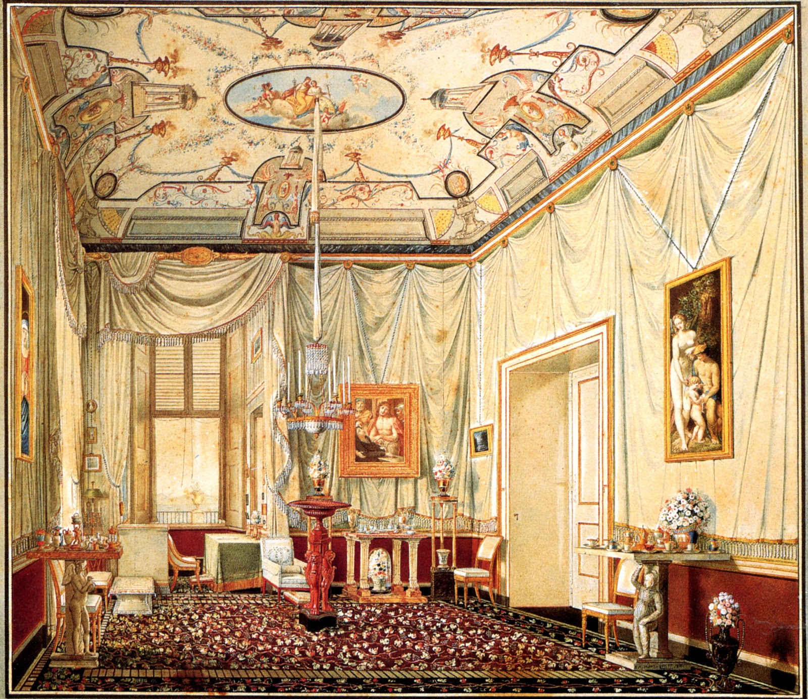 Caroline Murat's sitting room in the Royal Palace of Naples